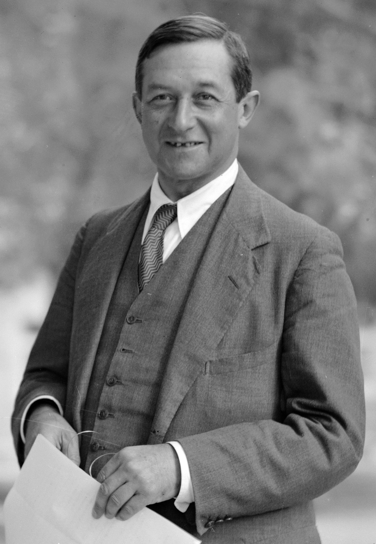 Judah Leon Magnes (1877-1948) Original Information: TITLE:Zionist activities in Palestine. Dr. J.S. Magnes, chancellor of the Hebrew University. CALL NUMBER: LC-M32- 3128[P&P] REPRODUCTION NUMBER: LC-DIG-matpc-02663 (digital file from original photo) LC-M3201-3128 (b&w film copy negative) RIGHTS INFORMATION: No known restrictions on publication. MEDIUM: 1 negative : glass, dry plate ; 5 x 7 in. CREATED/PUBLISHED: [between 1925 and 1934] CREATOR: American Colony (Jerusalem). Photo Dept., photographer. NOTES: Title from: Catalogue of photographs & lantern slides ... [1936?]. On negative: 42. Date from Matson LOT cards. Gift; Episcopal Home; 1978. SUBJECTS:Jerusalem. FORMAT:Dry plate negatives. PART OF: G. Eric and Edith Matson Photograph Collection REPOSITORY: Library of Congress Prints and Photographs Division Washington, D.C. 20540 USA DIGITAL ID: (digital file from original photo) matpc 02663 CONTROL #: mpc2004002000/PP